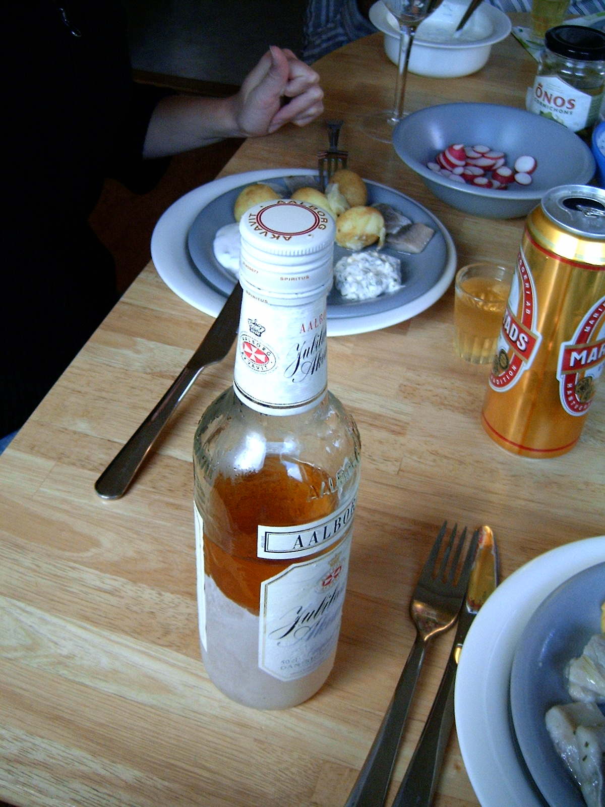 Snaps. Ice cold. From the freezer.